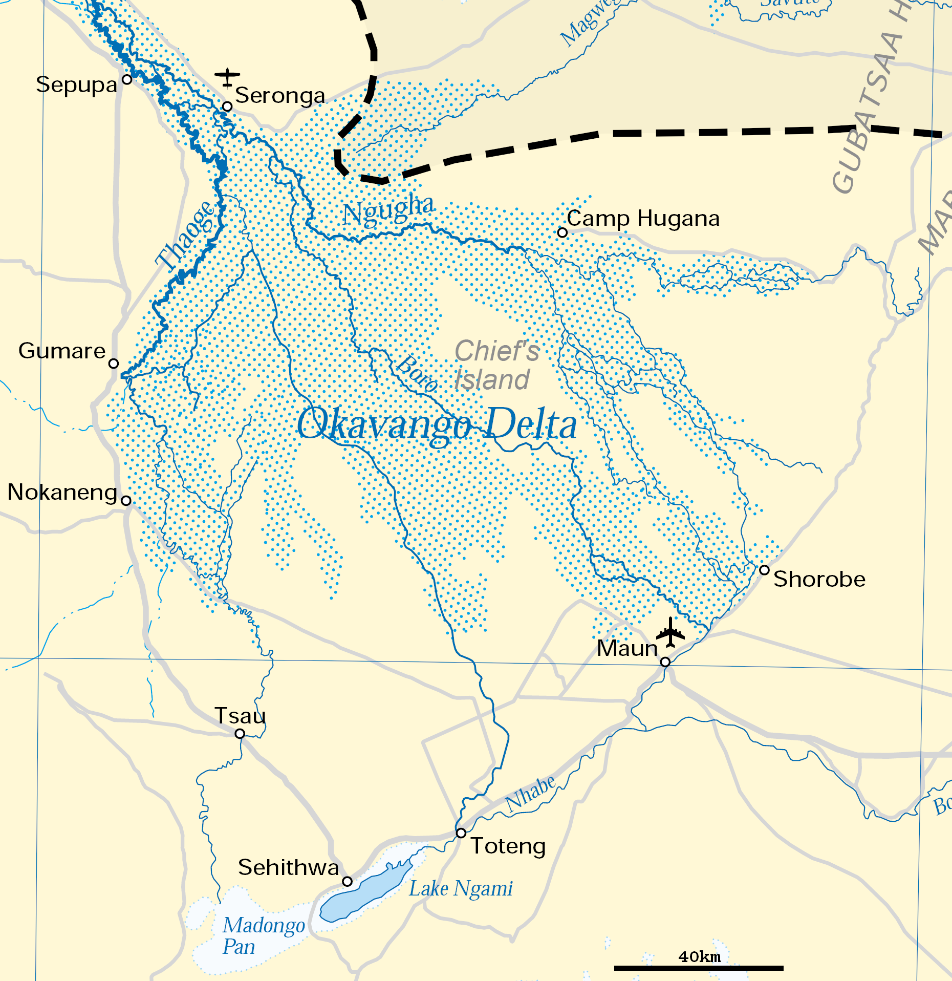 Map of the Okavango delta (Botswana), expanded part of File:Okavango River Basin map.png. For detailled map legend see there. Maun has an airport, Seronga an airfield. The black line is the catchment boundary. The distance between the longitude lines (22 and 24° East) is approx. 130 mi (208 km). The drawn latitude is 20 degree south.